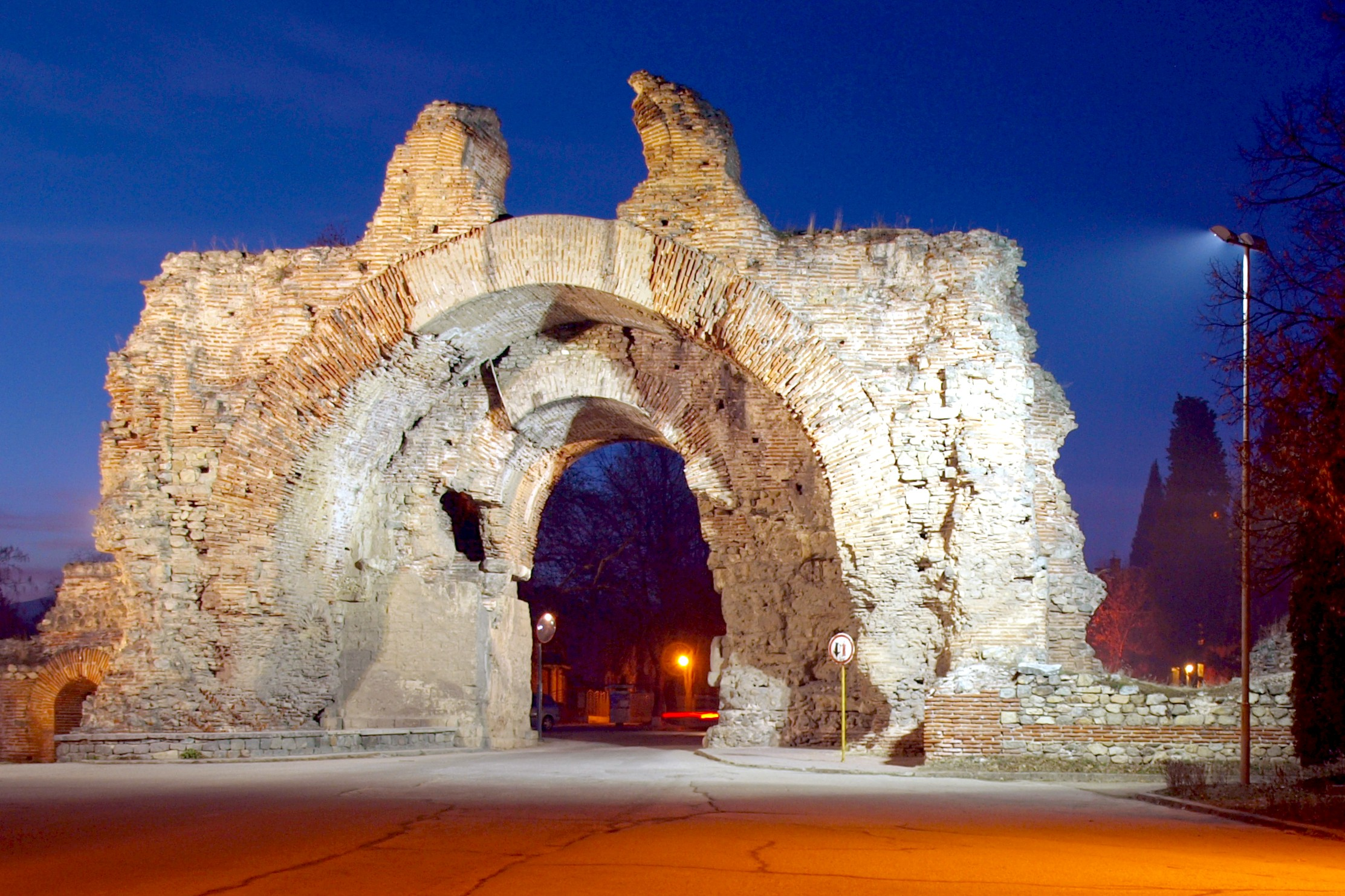 The Southern Gate of the ancient Roman fortress Diocletianopolis in Thracia. Nowadays the ruins of the fortress are situated in the town of Hisarya — a famous touristic and balneologic destination in Bulgaria. The picture is taken at night.